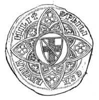 Seal of Philip I of Piedmont